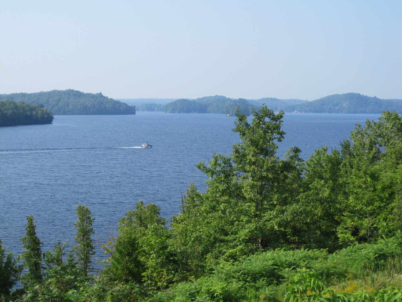 Fairy Lake in Muskoka (Canada/Ontario)